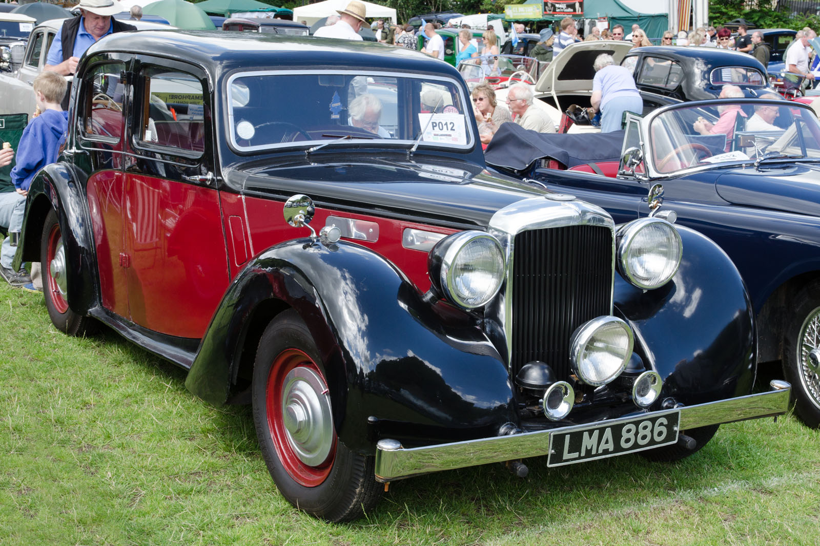 1949 Alvis TA 14 chassis 23110 Mulliners body M1330 Left Alvis factory 21 April 1949Hebden Bridge Vintage Weekend 04/08/2013